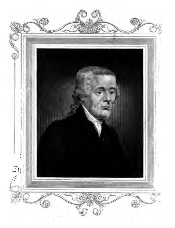 Portrait of Abraham Booth (1734–1806), English Baptist minister.